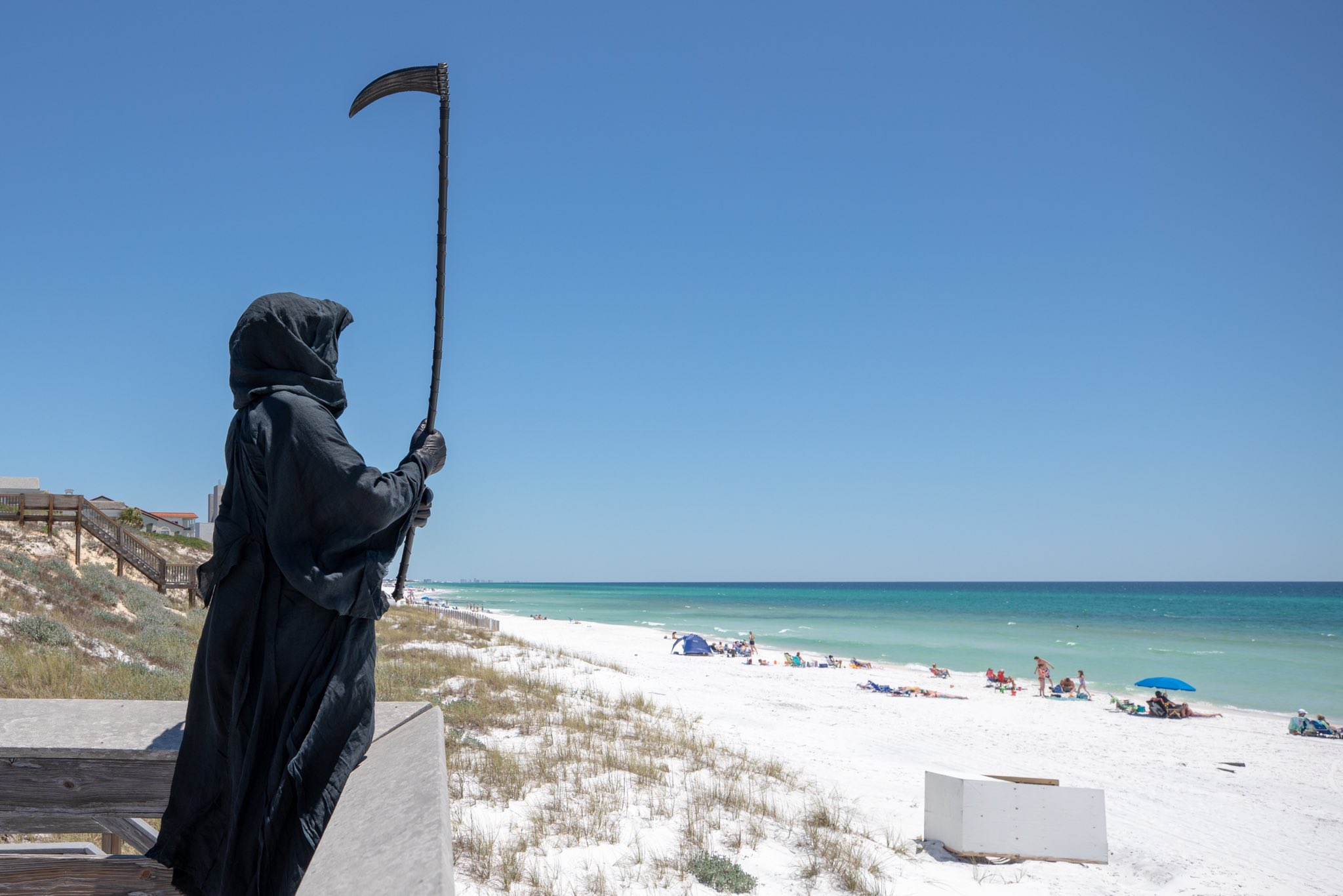 Florida Beaches COVID-19